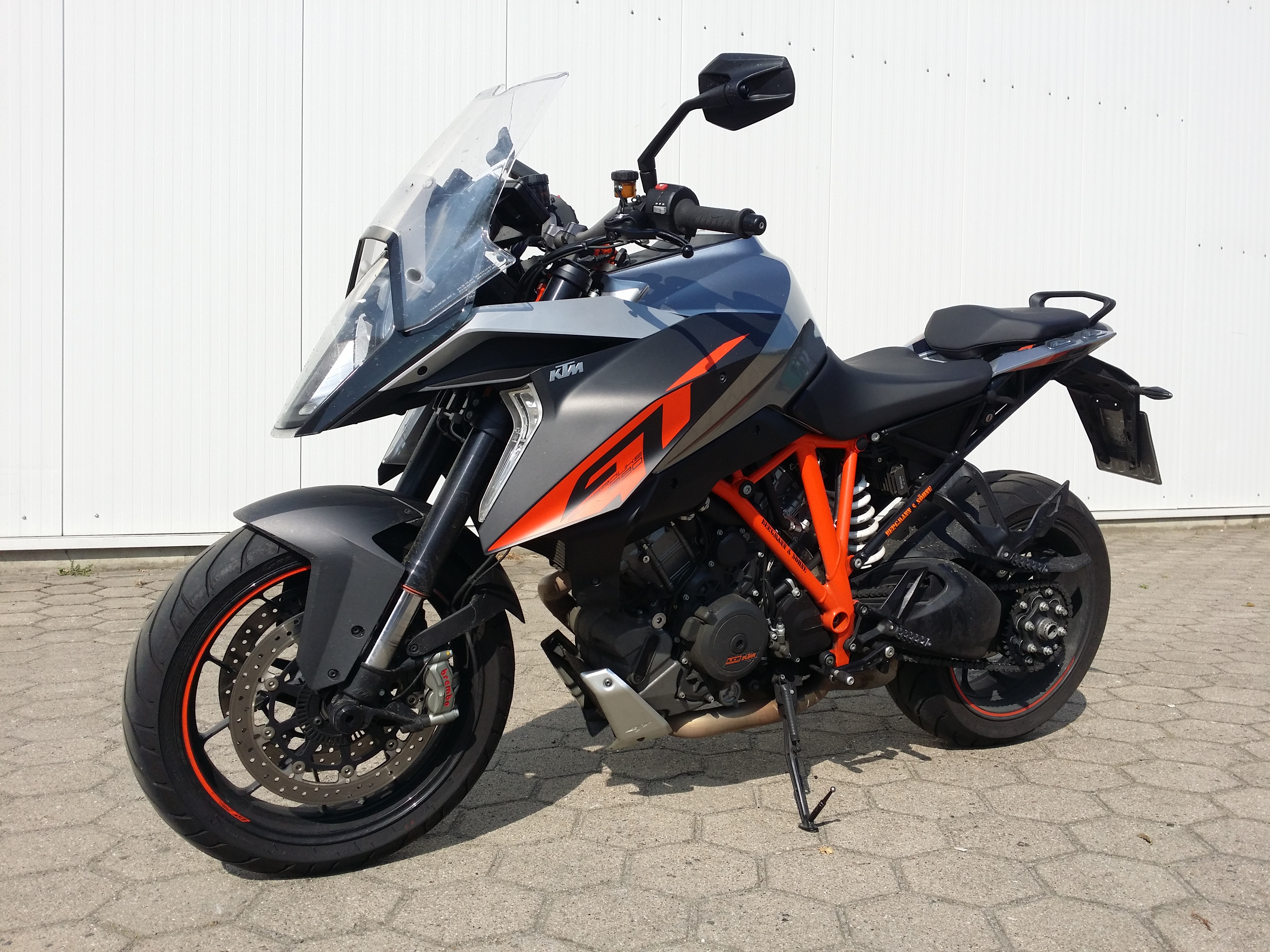 KTM 1290 Super Duke GT motorcycle